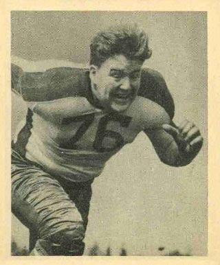 American football player Bucko Kilroy on a 1948 Bowman card.